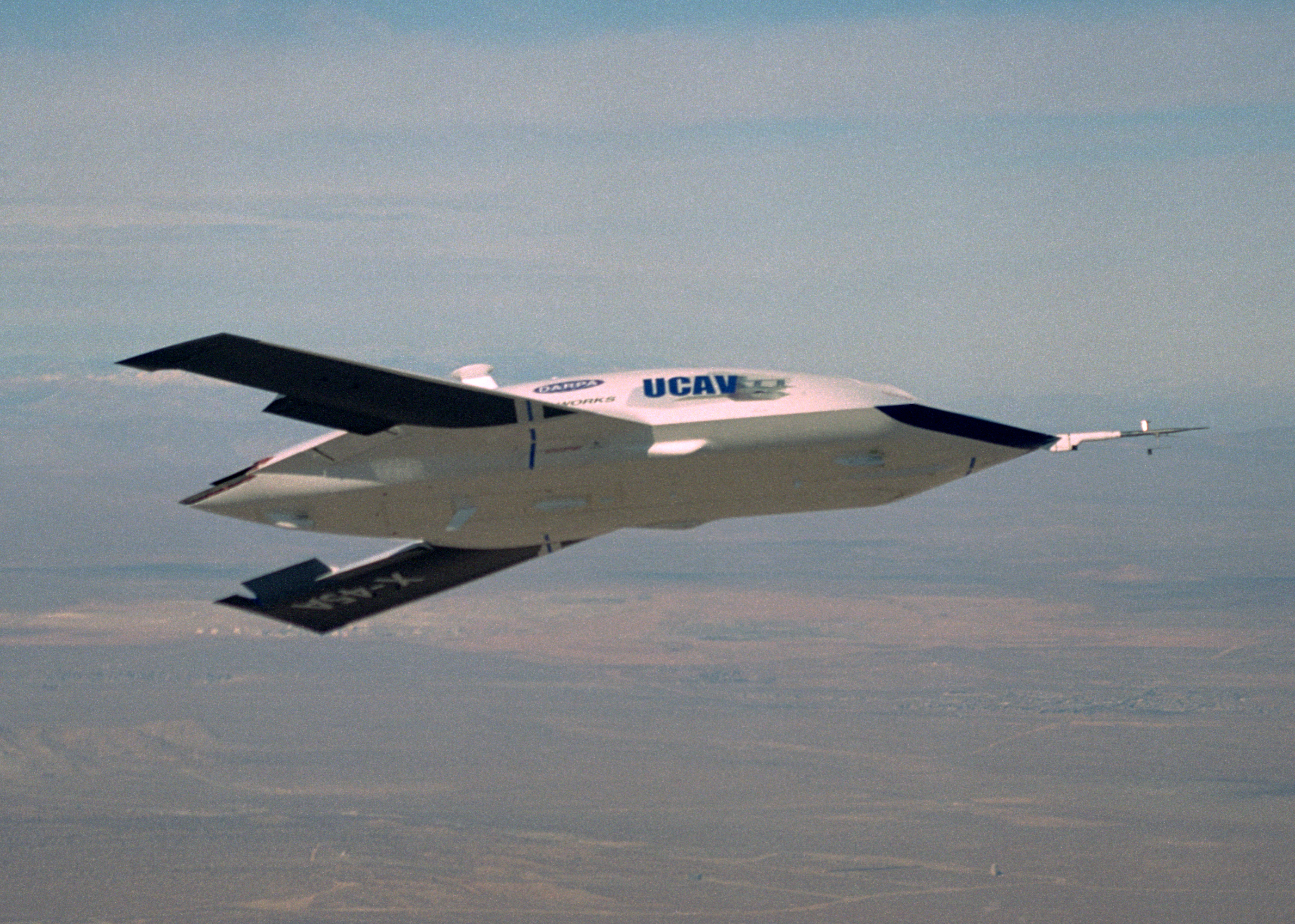 The first X-45A Unmanned Combat Air Vehicle (UCAV) technology demonstrator completed its sixth flight on Dec. 19, 2002, raising its landing gear in flight for the first time. The X-45A flew for 40 minutes and reached an airspeed of 195 knots and an altitude of 7,500 feet. Dryden is supporting the DARPA/Boeing team in the design, development, integration, and demonstration of the critical technologies, processes, and system attributes leading to an operational UCAV system. Dryden support of the X-45A demonstrator system includes analysis, component development, simulations, ground and flight tests.